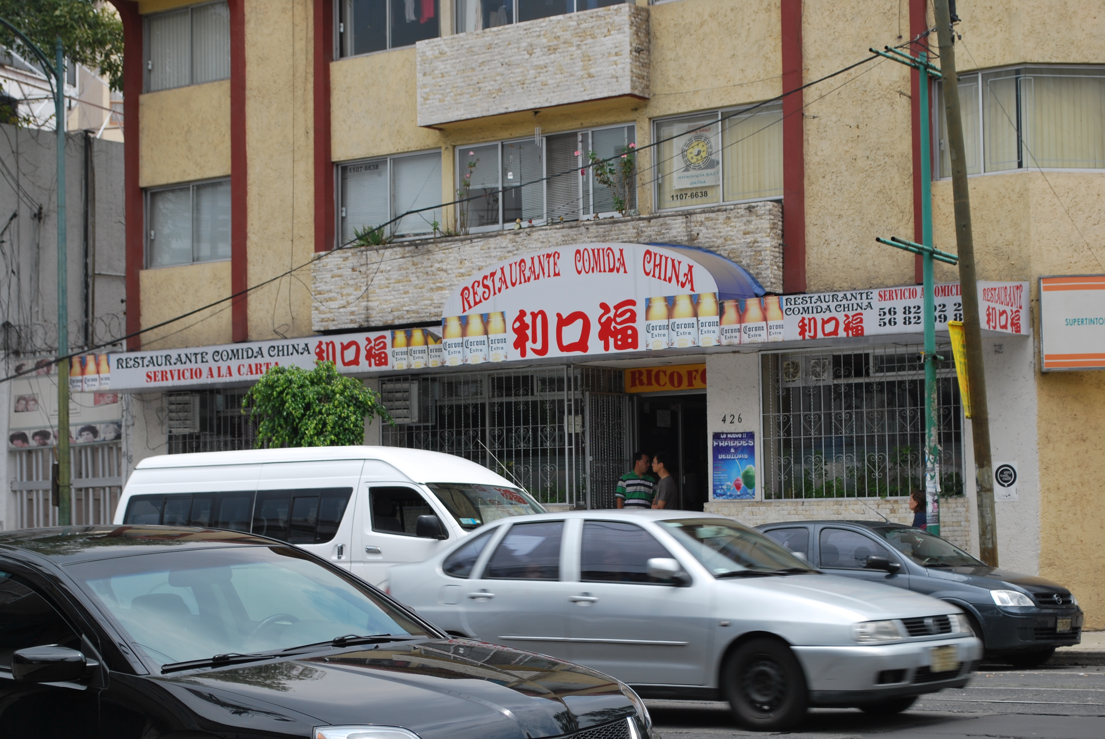 Rico Food Chinese Restaurant in Benito Juárez borough in Mexico City